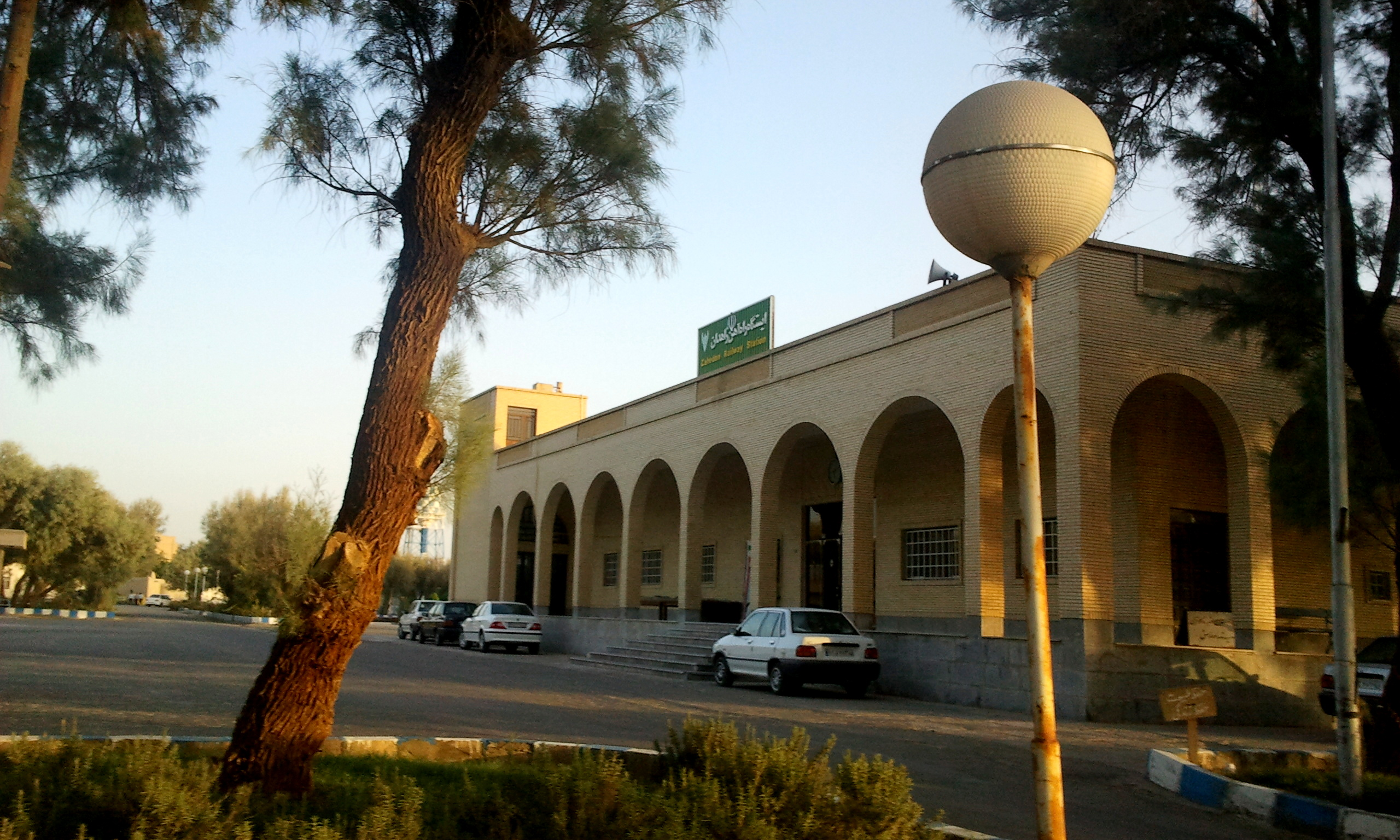 Zahedan